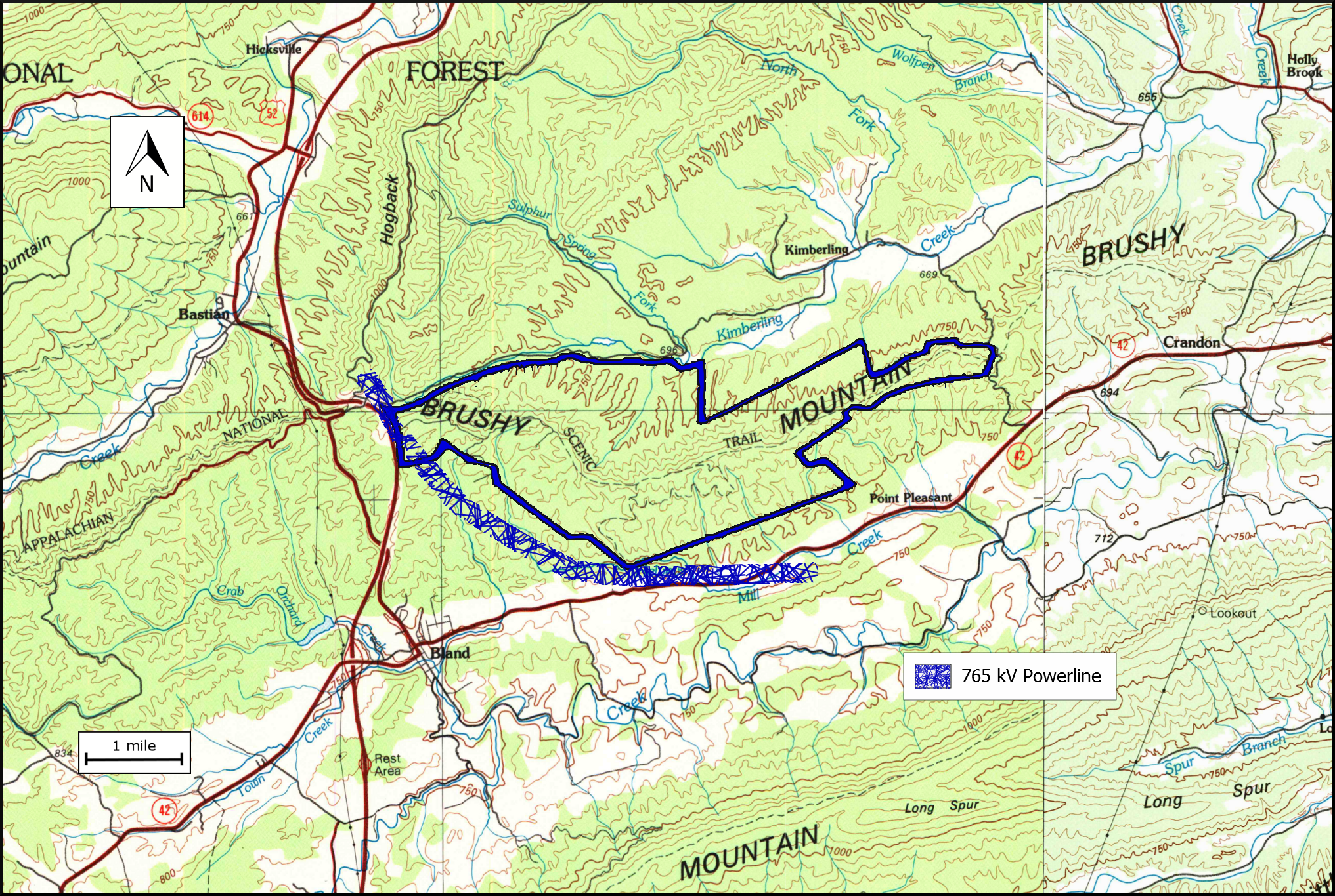 Boundary of the Brushy Mountain wildland in the Jefferson National Forest as identified by the Wilderness Society